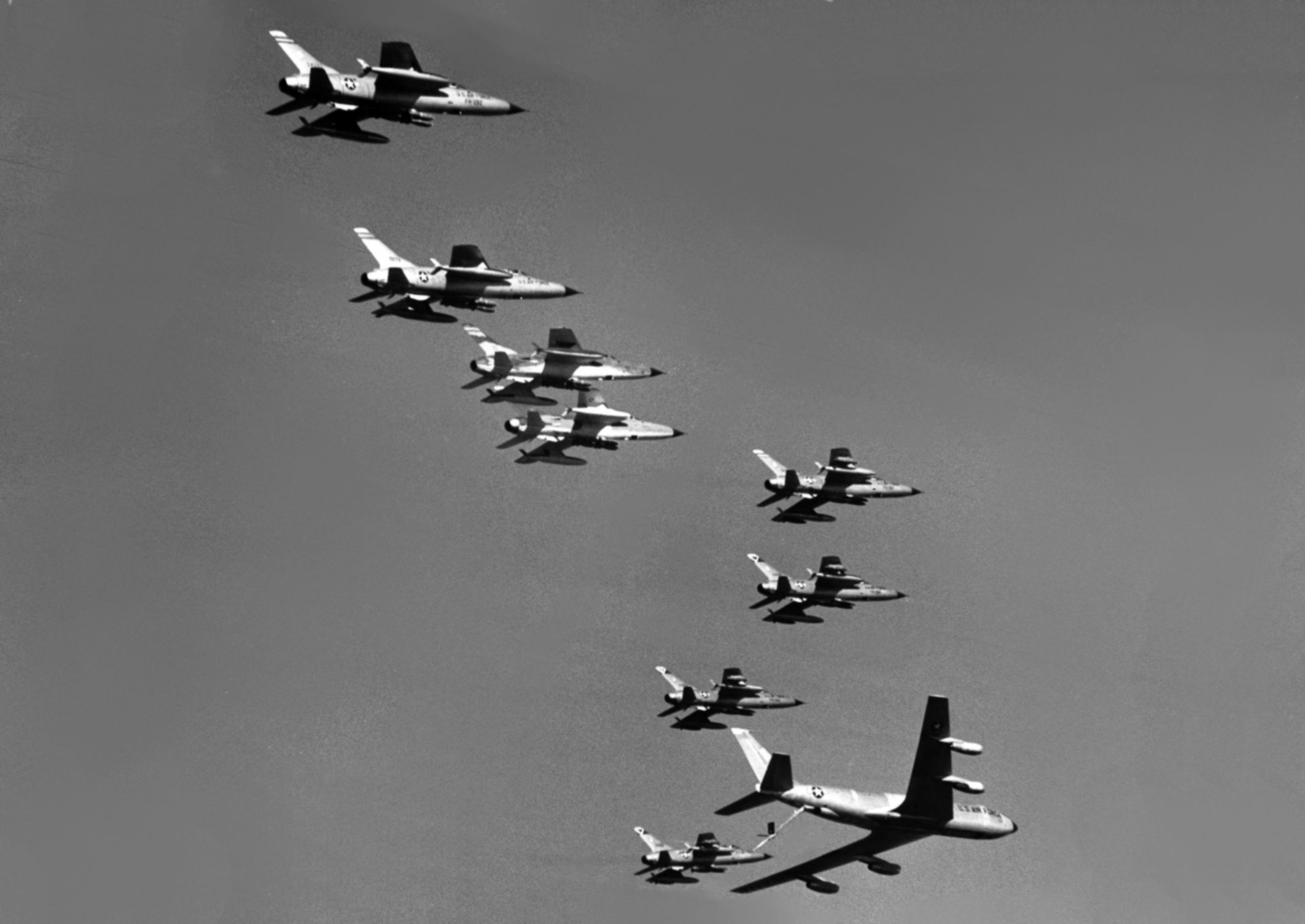 U.S. Air Force Republic F-105D Thunderchiefs receive fuel from a Boeing KC-135A Stratotanker on their way to targets in North Vietnam, December 1965.